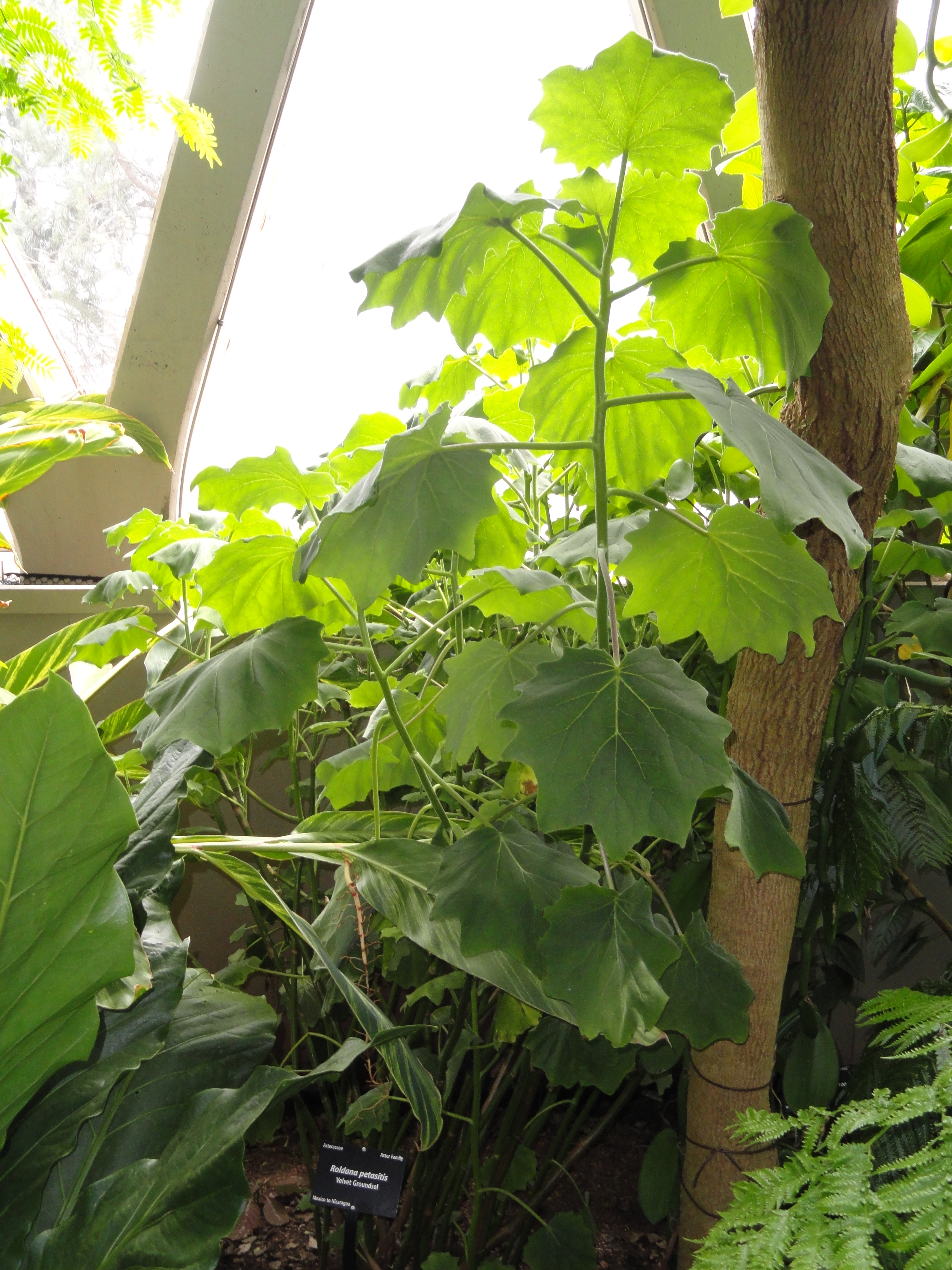 Roldana petasitis. Botanical specimen in the Denver Botanic Gardens, 1007 York Street, Denver, Colorado, USA.